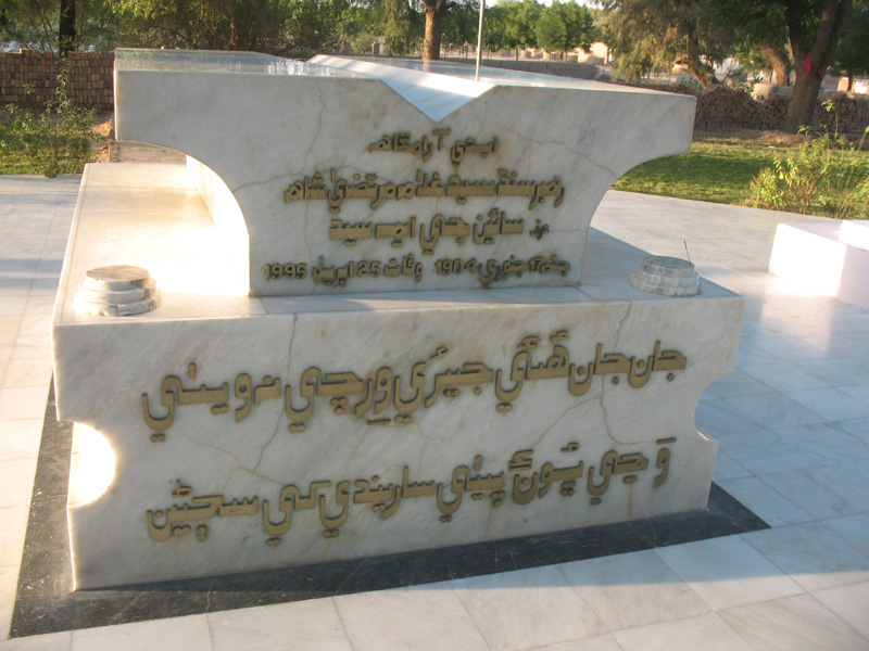 Grave or last resting place of G. M. Syed